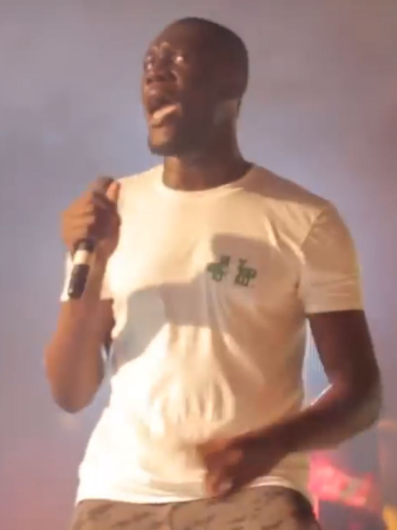 Cropped video still of Stormzy performing at the Beat 99.9 FM end-of-year concert in Lagos, Nigeria, in December 2015